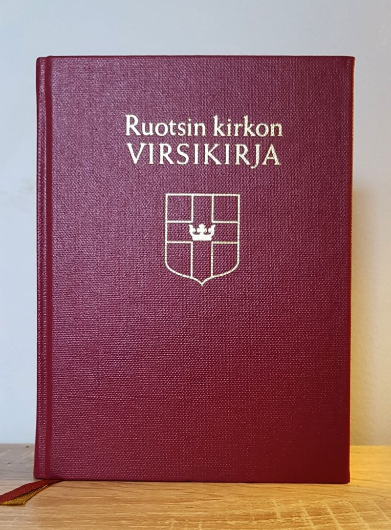 The Finnish Hymnal of the Church of Sweden